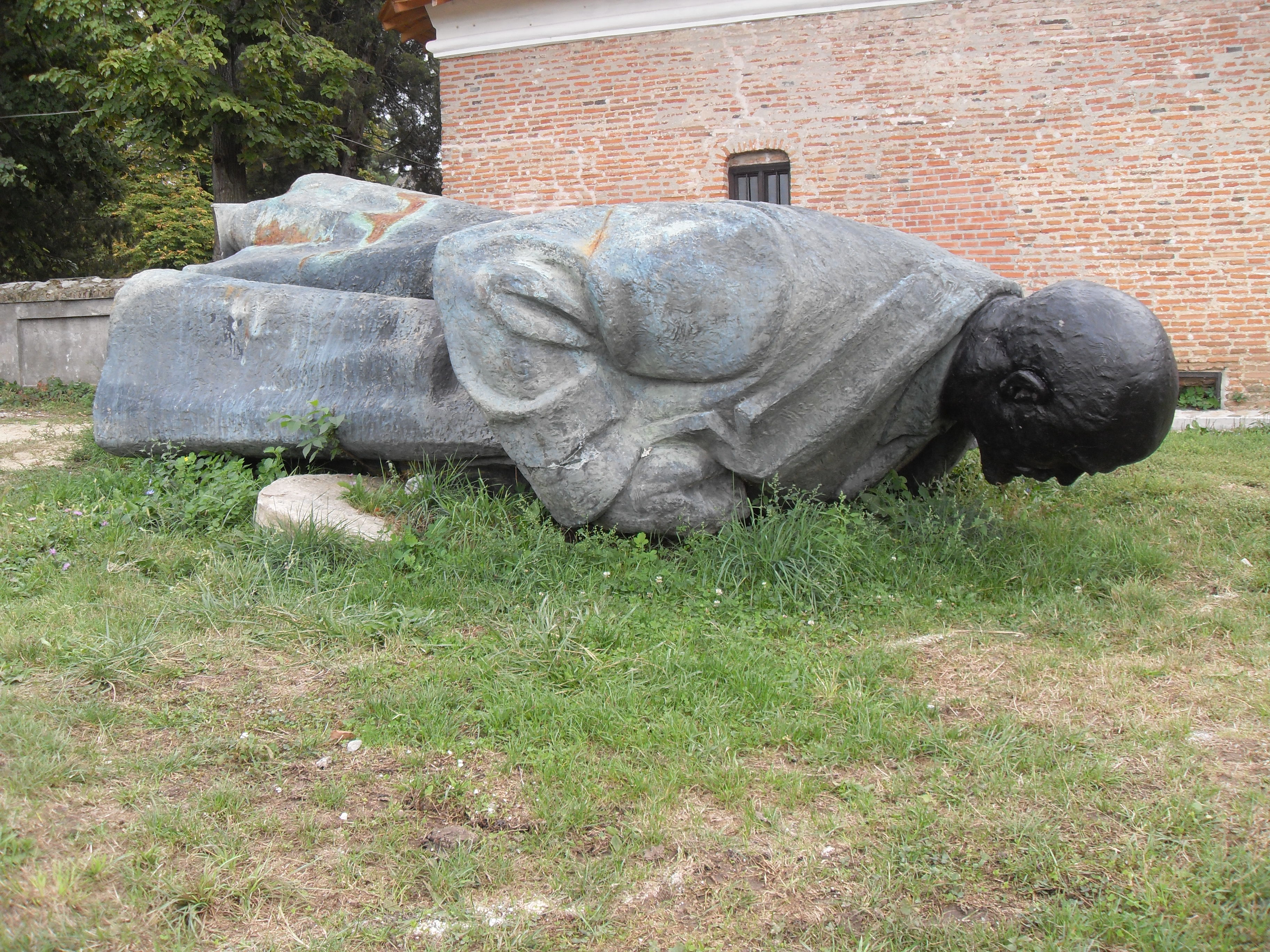 Fallen statue of Lenin next to the Mogoşoaia Palace (Romania)